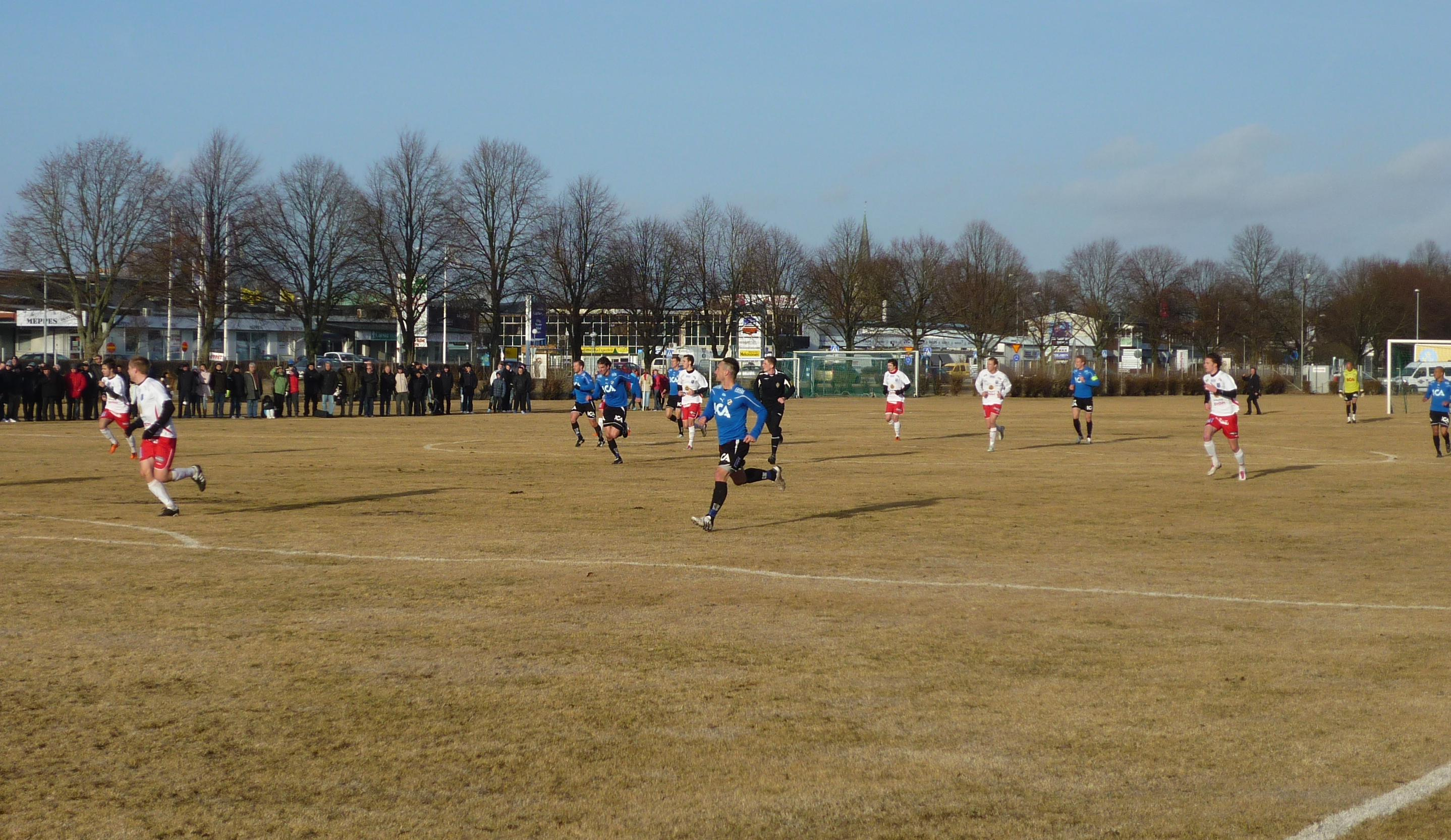 Exhibition game between Halmstads BK and IS Halmia